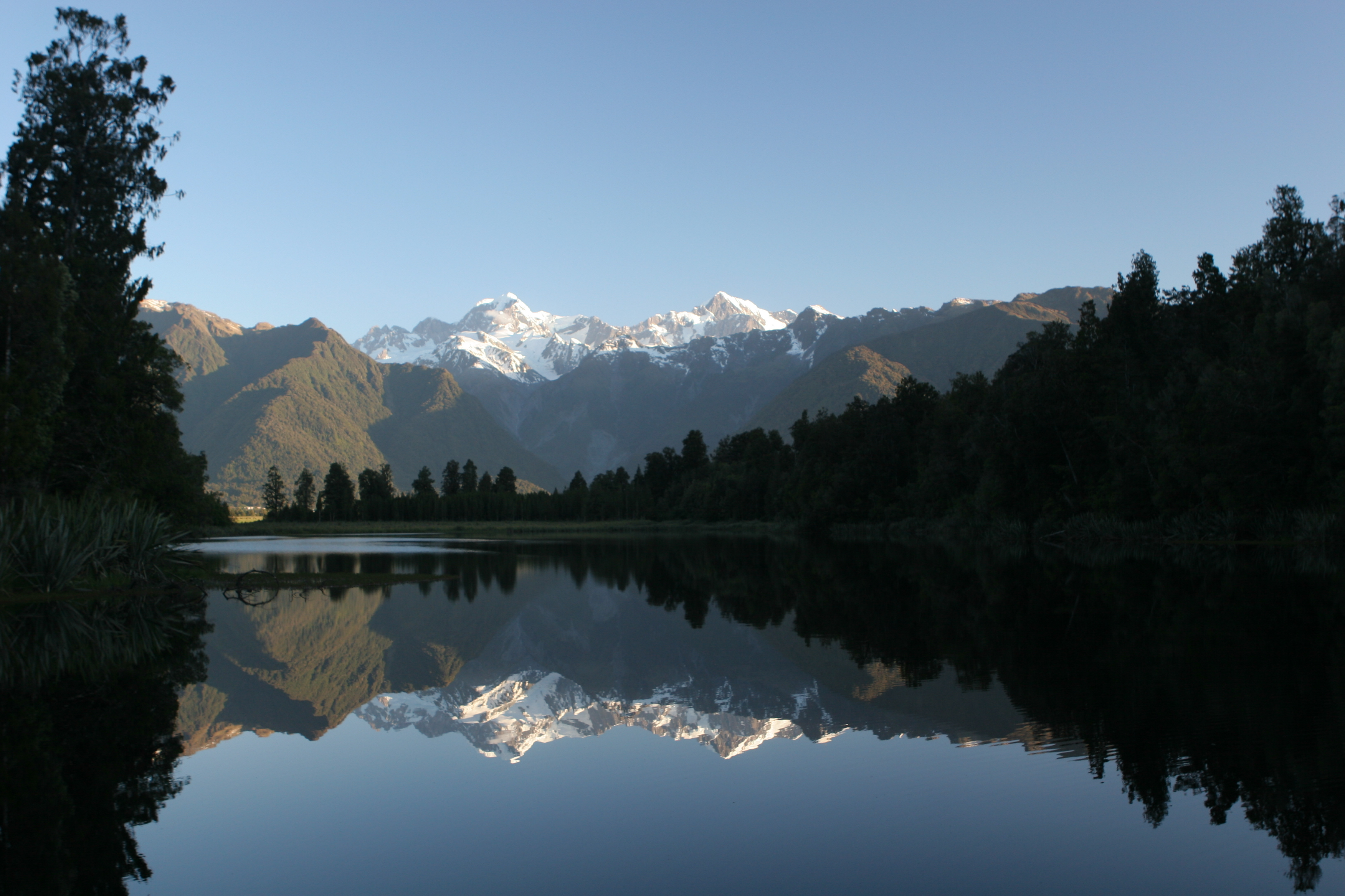 Lake Matheson on a calm early evening